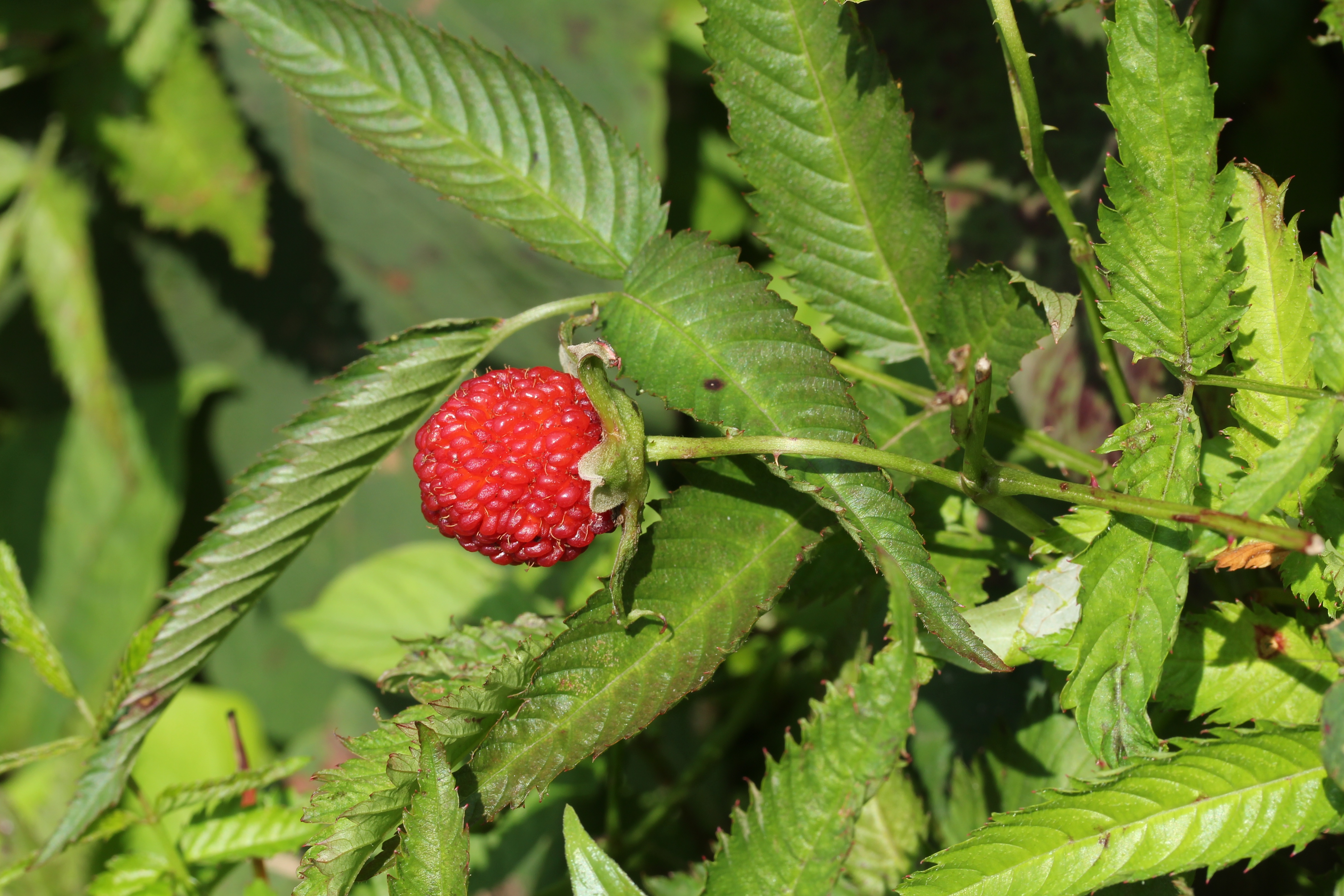 Rubus illecebrosus, fruits in Mount Ibuki, Maibara, Shiga prefecture, Japan.